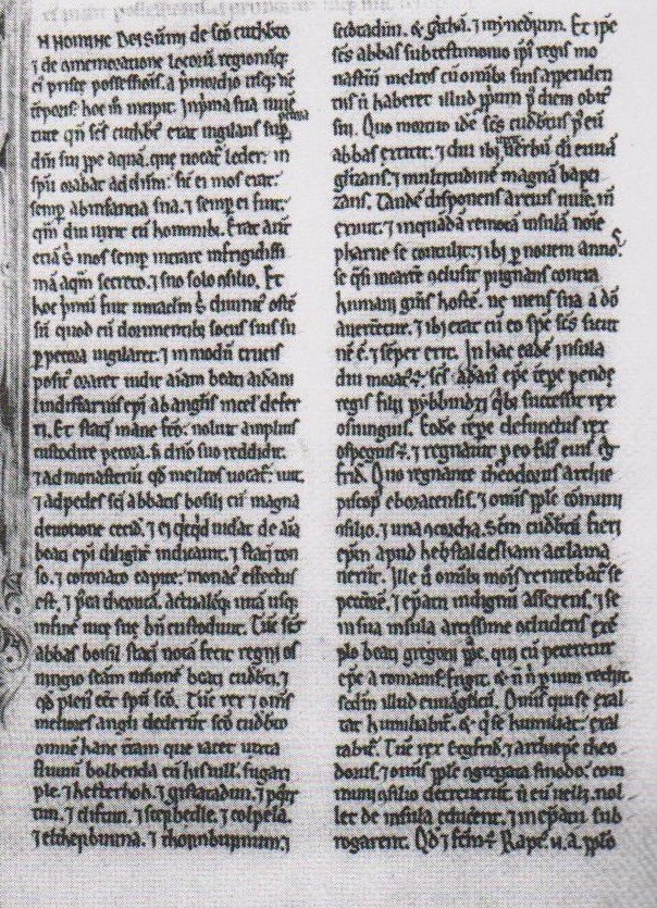 The opening page of the anonymous 11th-century text, the Historia de Sancto Cuthberto, a the 12th-century manuscript (Cambridge University Library Ff. 1.27)